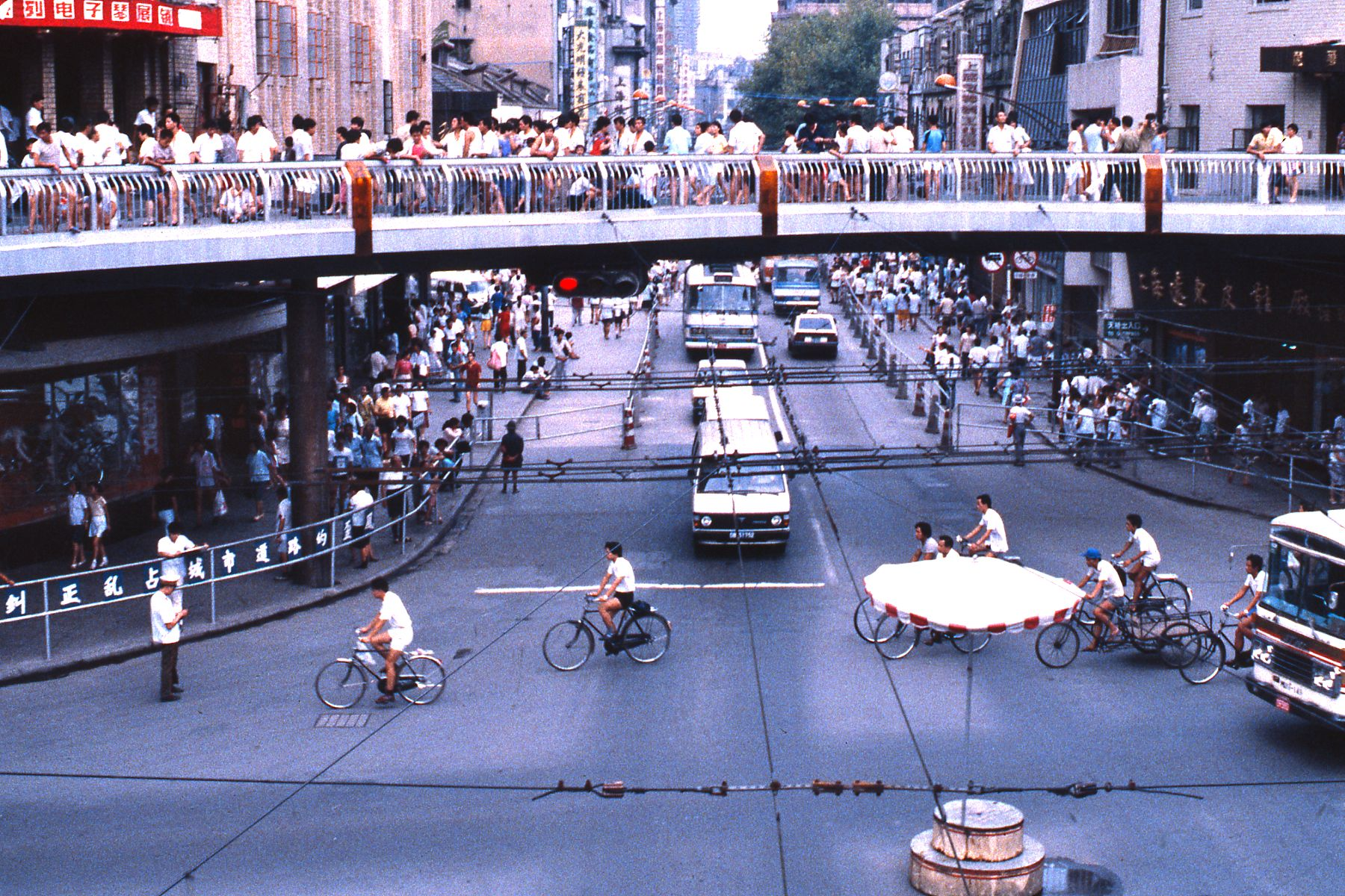 Traffic circle with pedestrians on an overcrossing, China, 1987. Policeman directing traffic, away from his little stand in the middle of the crossing. Some bicyclists. Crowded sidewalks.